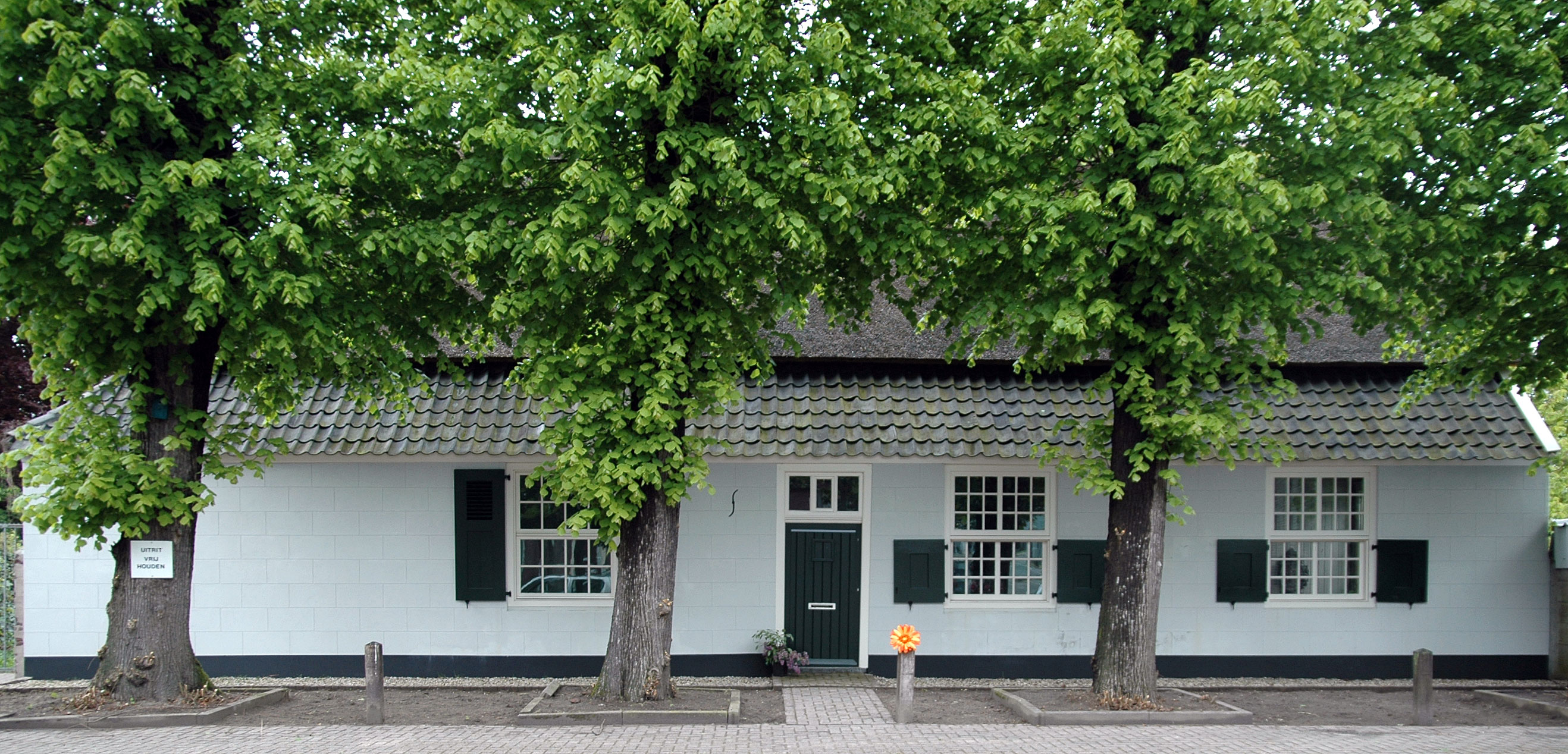 Farmhouse, 13 't Hofke, Eindhoven, NL